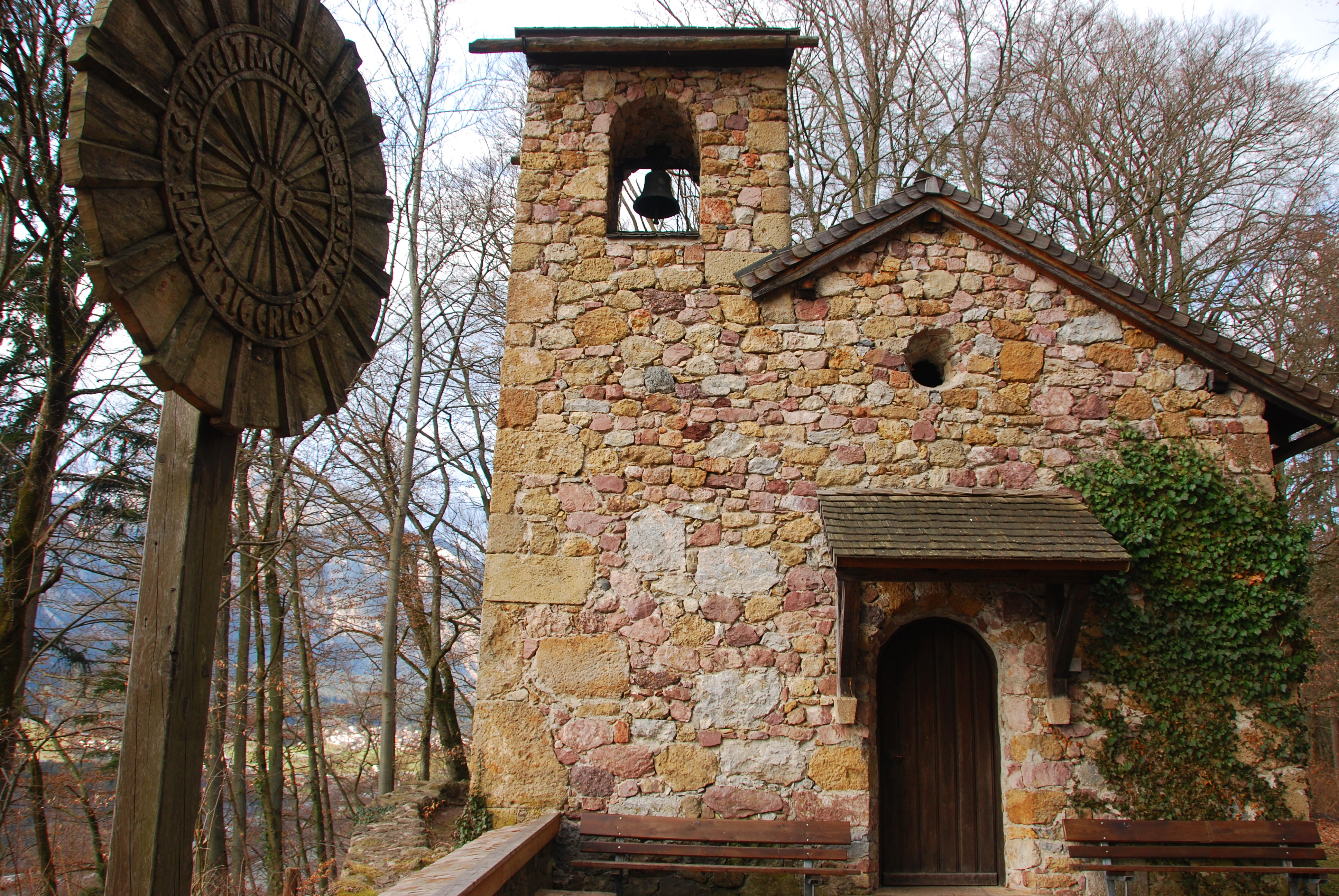 Kapelle hl. Notburga in der Ruine Rottenburg This media shows the remarkable cultural object in the Austrian state of Tyrol listed by the Tyrolean Art Cadastre with the ID 14003. (on tirisMaps, pdf, more images on Commons)